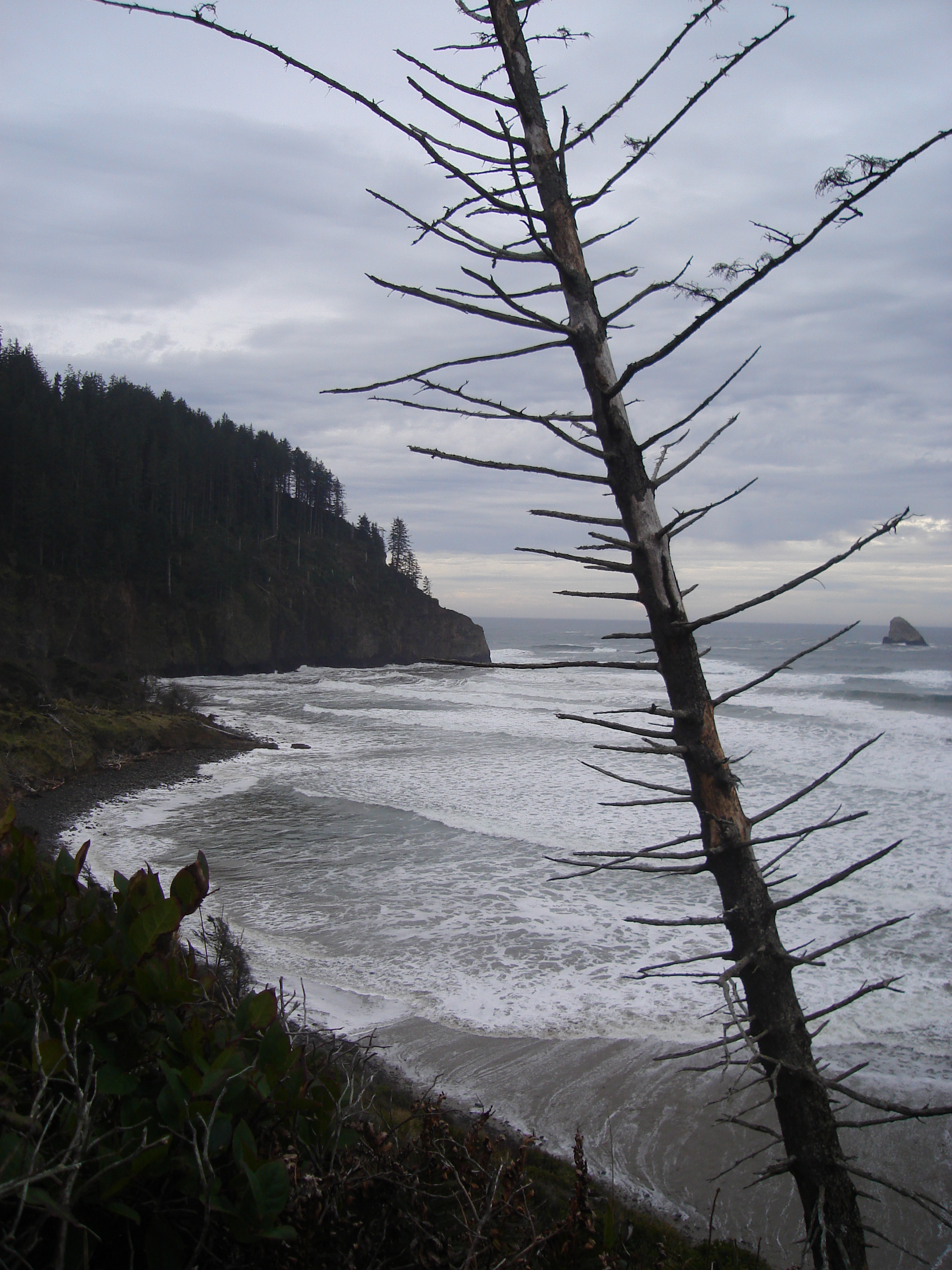 A picture of Cape Meares looking south.